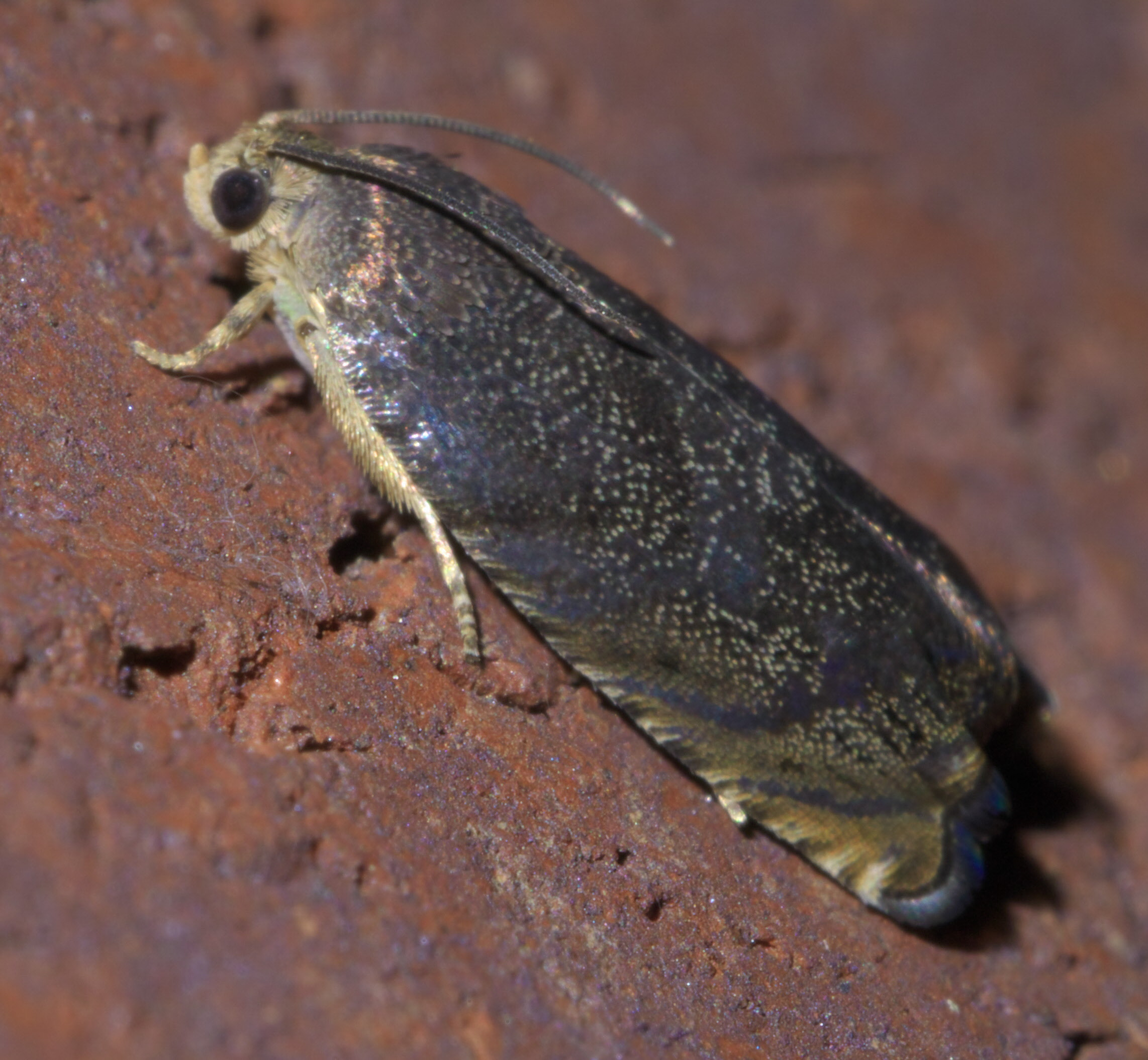 Cydia caryana, hickory shuckworm, Size: 7.8 mm, ID Confidence: 87